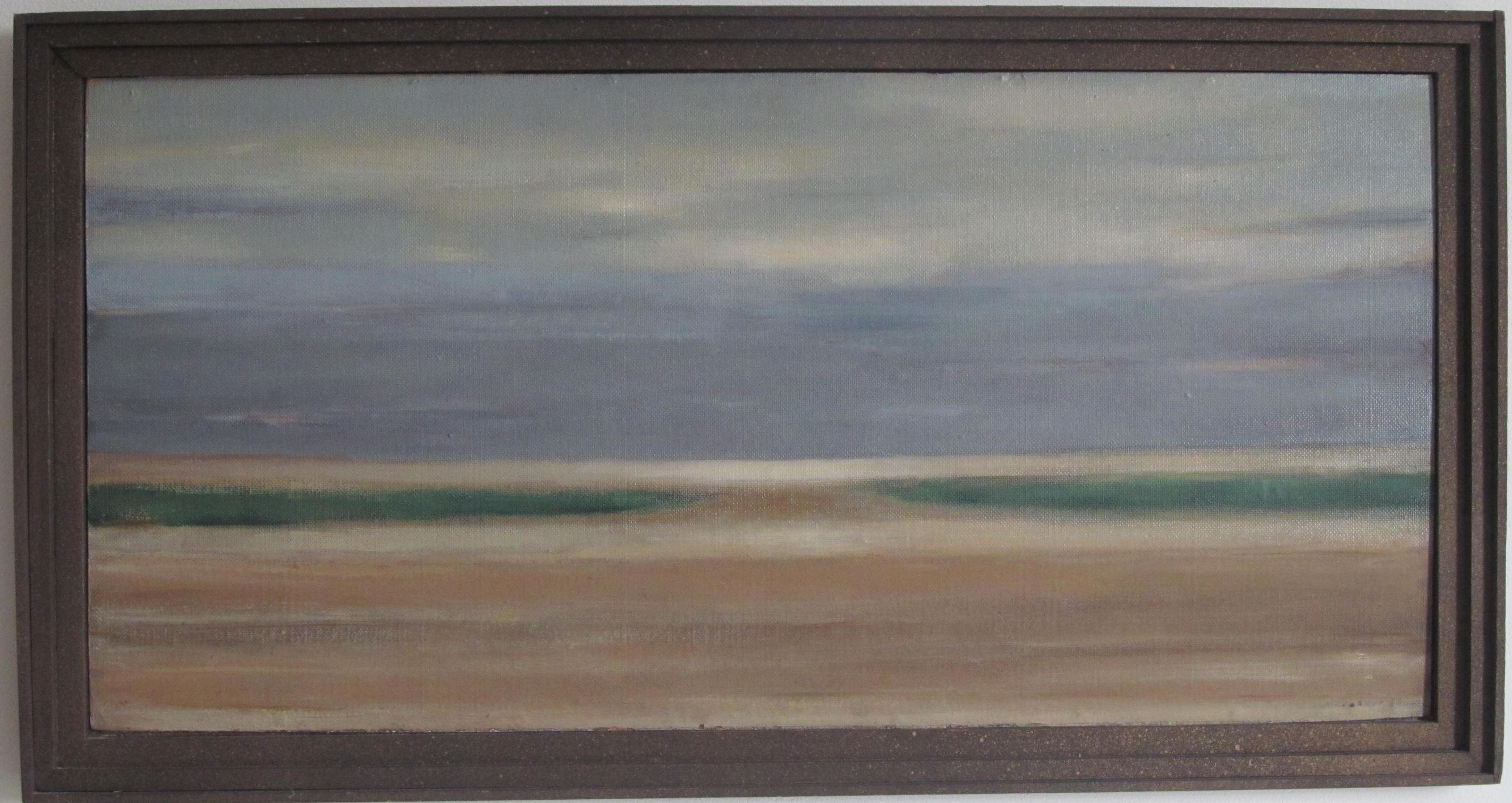 Kamil Linhart, Field, 1960